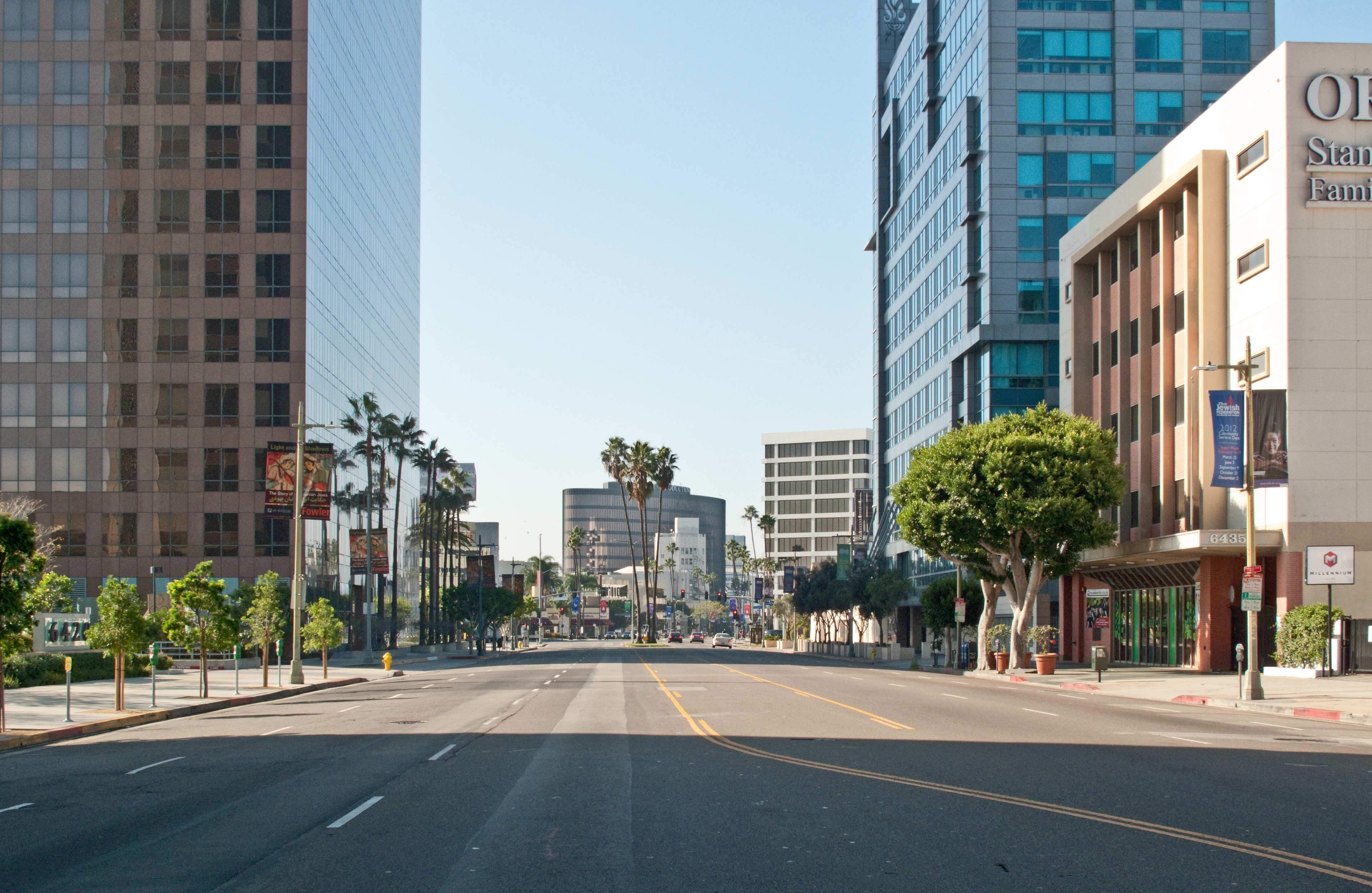 Wilshire Blvd in the Fairfax District, looking west towards Beverly Hills